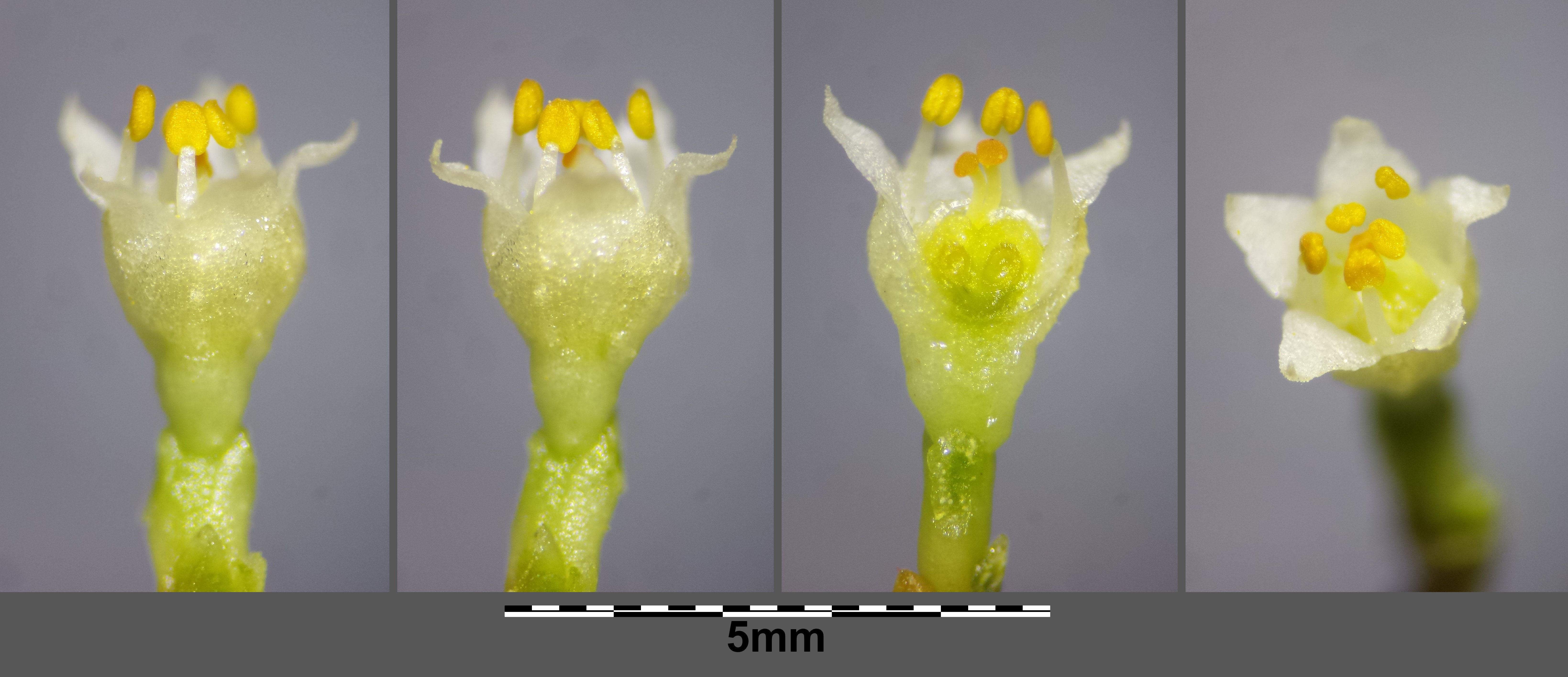 Flower Taxonym: Cuscuta campestris ss Fischer et al. EfÖLS 2008 ISBN 978-3-85474-187-9 Location: Žárský rybník, Jihočeský kraj, Czech Republic - ca. 500 m a.s.l. Habitat: ground of a pond